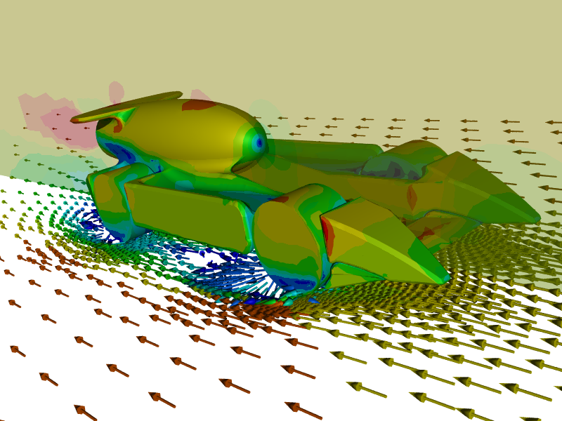 CFD airflow simulation around the 2009/2010 Basilisk Performance team's CO2 dragster entry for F1 in Schools. The CFD simulation was performed in Caedium Professional and rendered by POV-Ray. The image shows velocity magnitude contours on the dragster body, wheels, and symmetry plane. Velocity arrows are shown on the ground plane and colored by velocity magnitude. Blue is low velocity and red is high velocity.